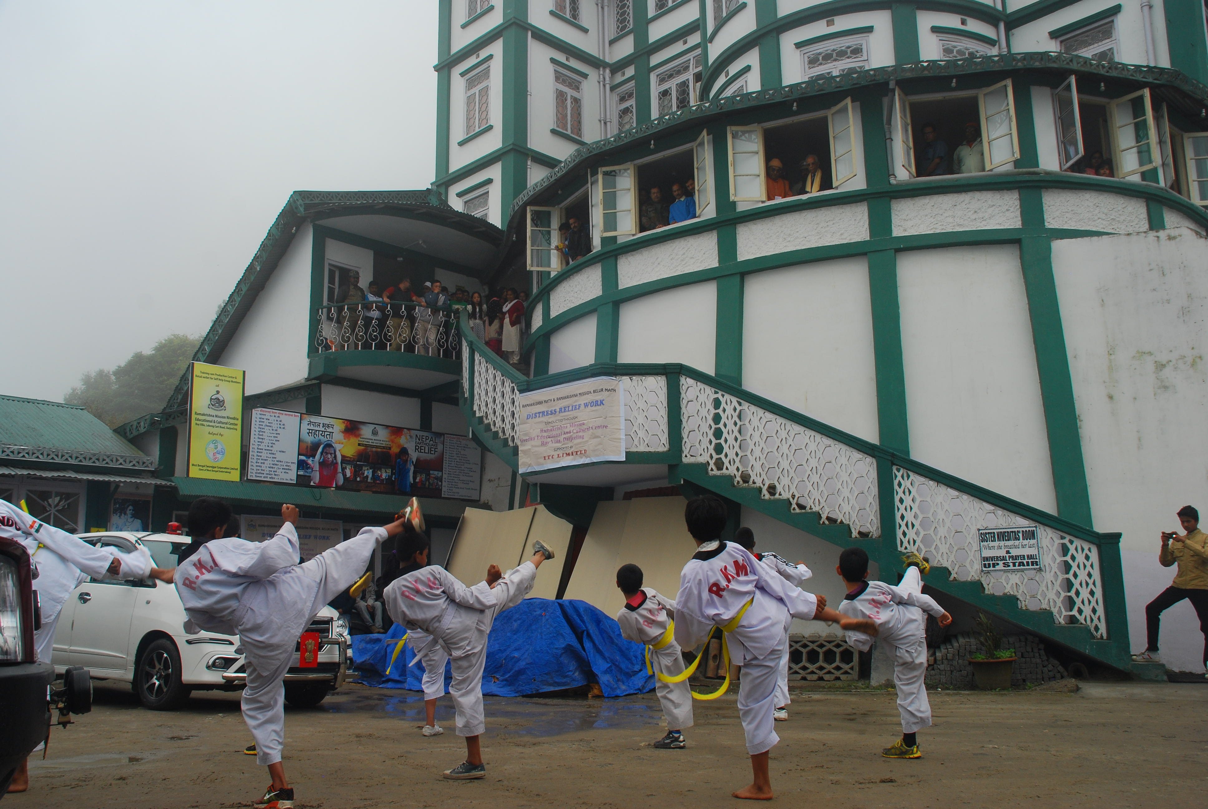 Activities Performed